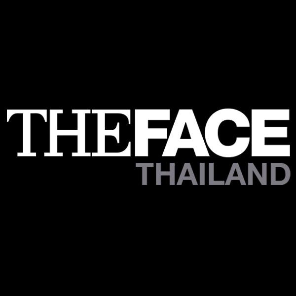 Logo of "The Face Thailand" (women)